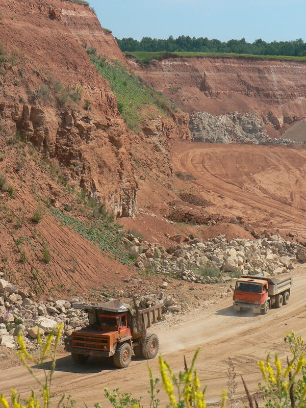 The crushed-stone mine in Ichalki